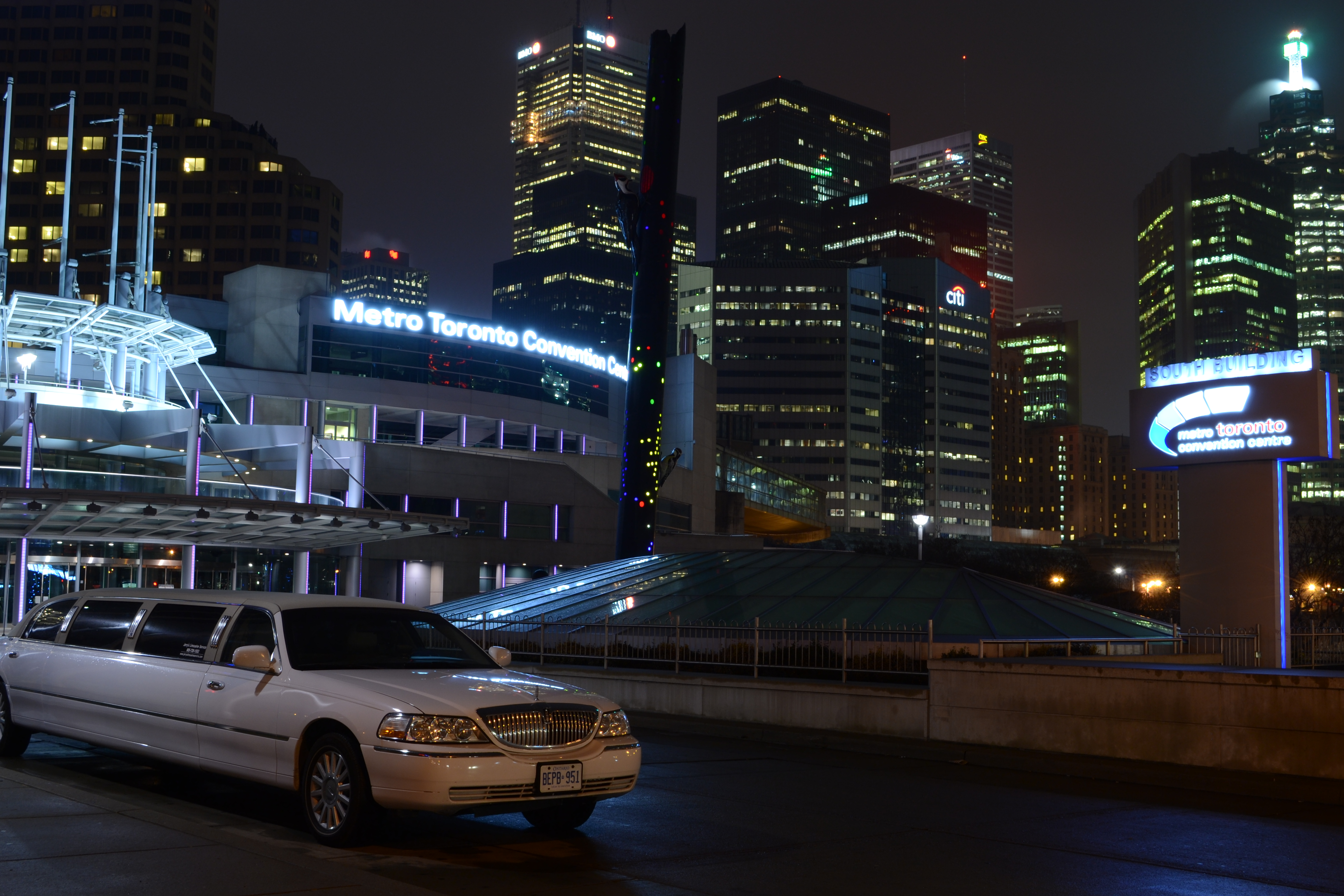 Metro Toronto Convention Centre